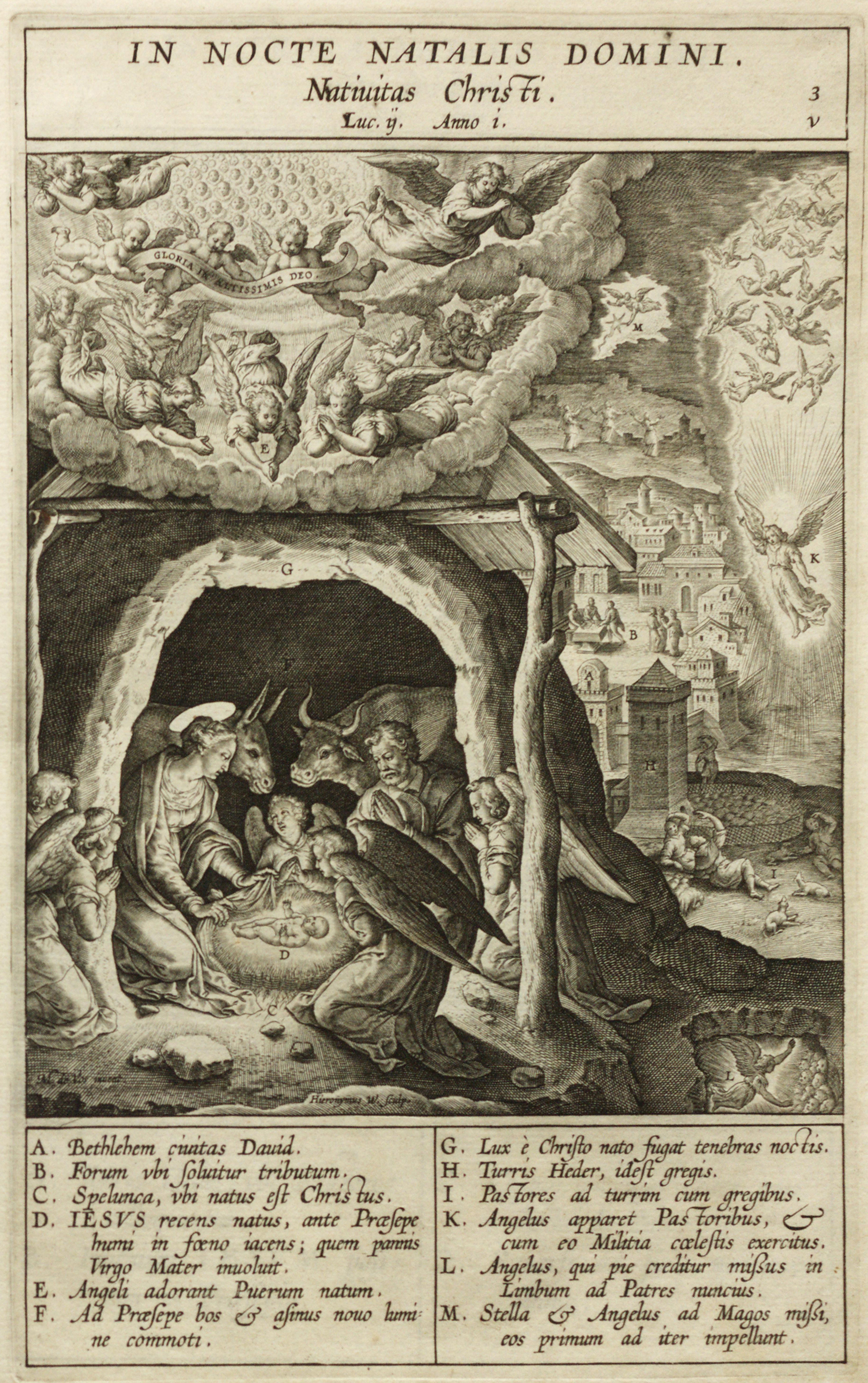 Illustration from Jerónimo Nadal: Evangelicae Historiae Imagines.